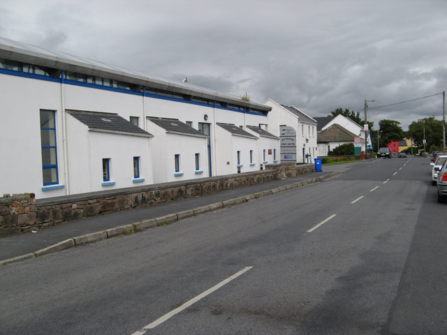 Carraroe Library A fine, modern building that provides not only the library services and internet access, but local authority area offices, Údarás na Gaeltachta, and exhibition area and a toy library. It was opened in 2001.